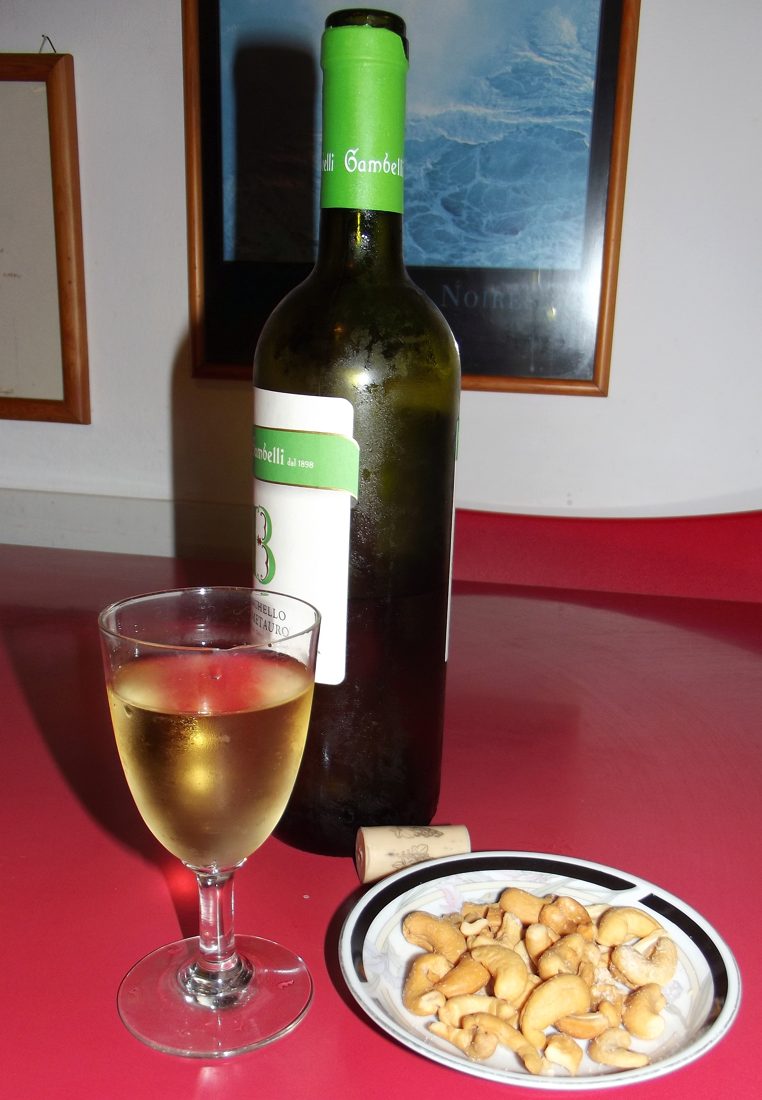 Bianchello del Metauro (Italian white wine) with cashew nuts